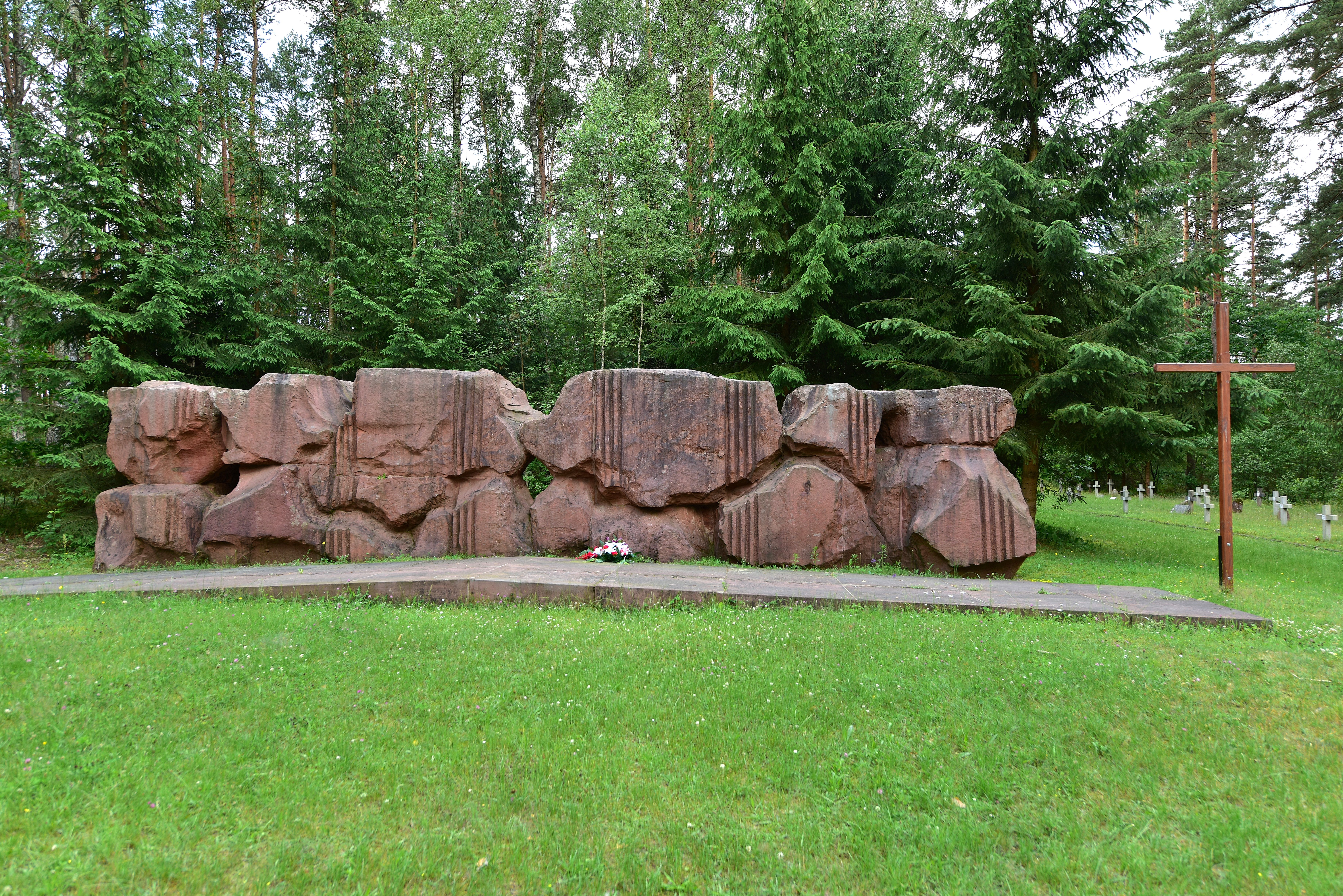 Execution site memorial in Treblinka